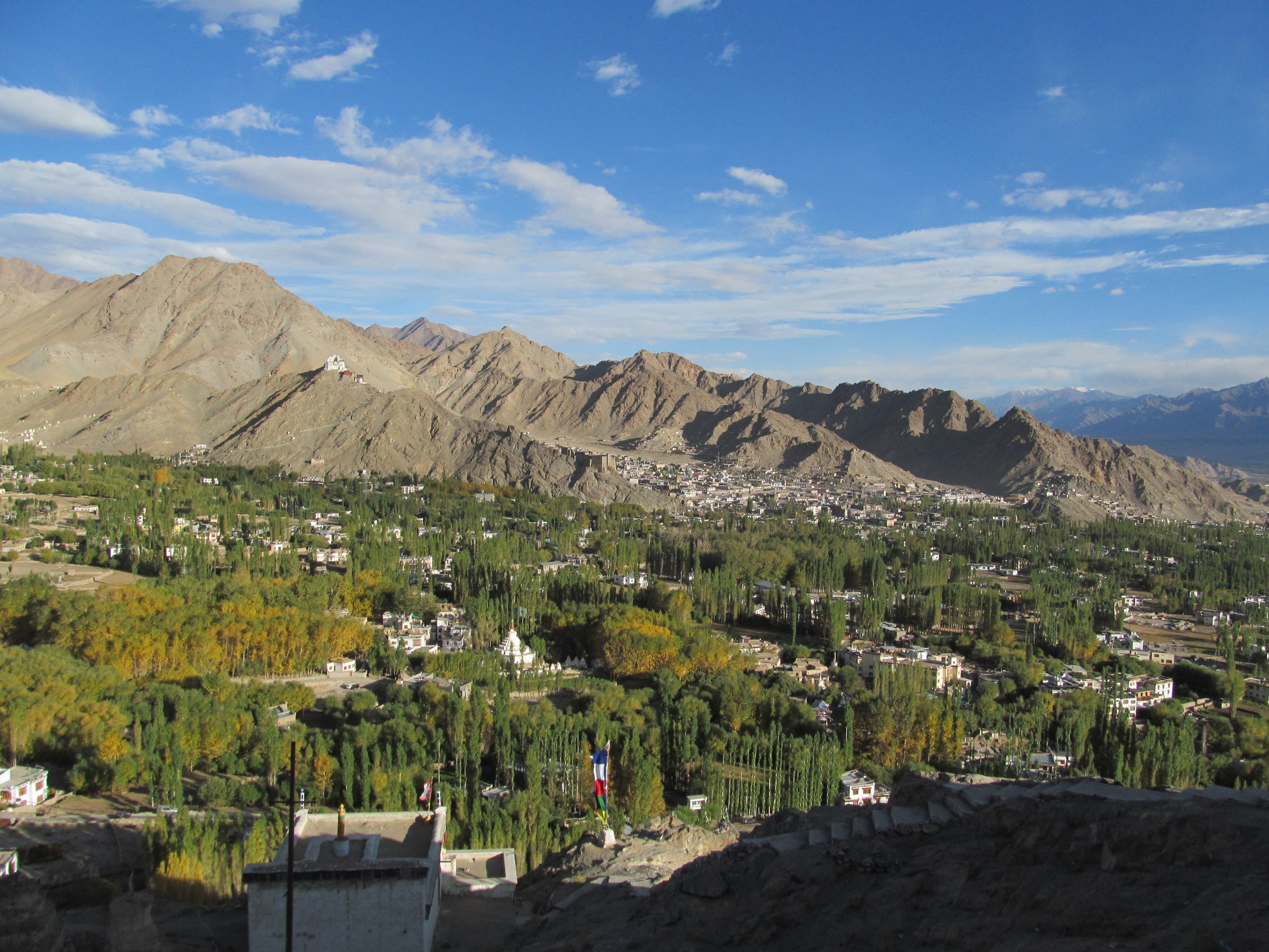 Leh City seen from Shanti Stupa. Namgyal Tsemo Monastery and Leh Palace can be seen on the ridge line.